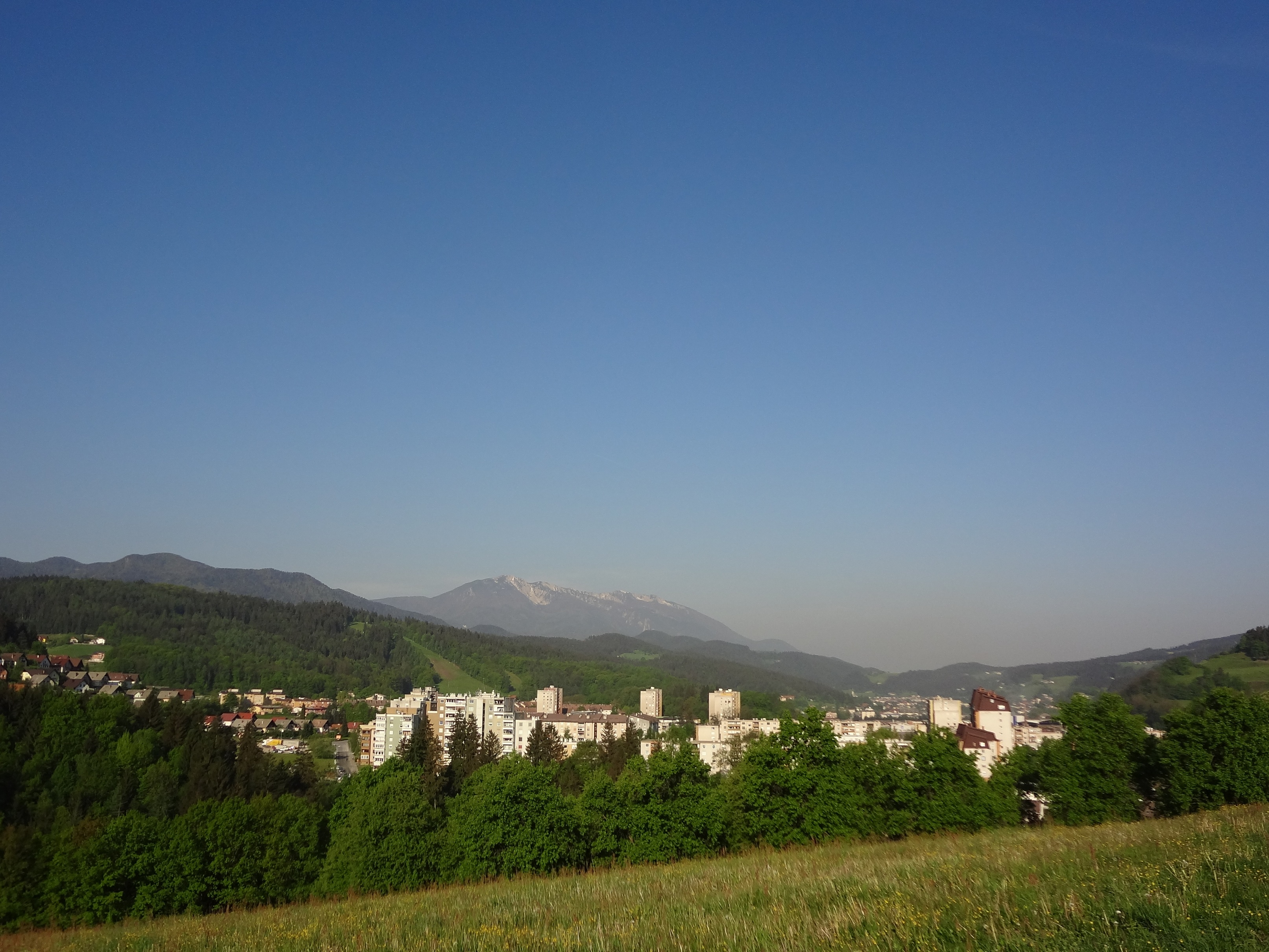 Ravne na Koroškem, SloveniaSlovenščina: Ravne na Koroškem, Slovenia